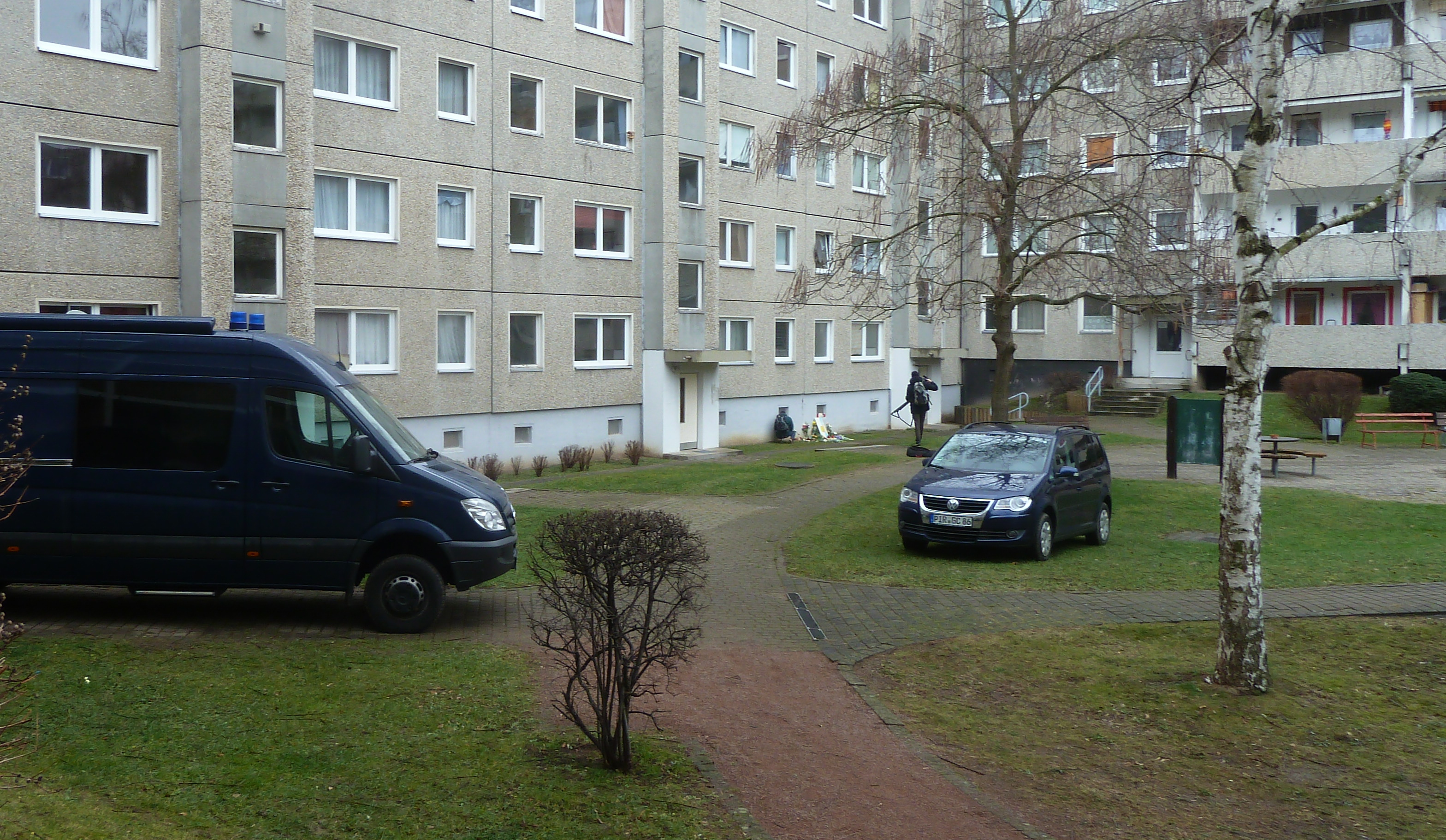 Johannes-Paul-Thilman-Straße in Leubnitz-Neuostra, Dresden: memorials for Khaled Idris Bahray